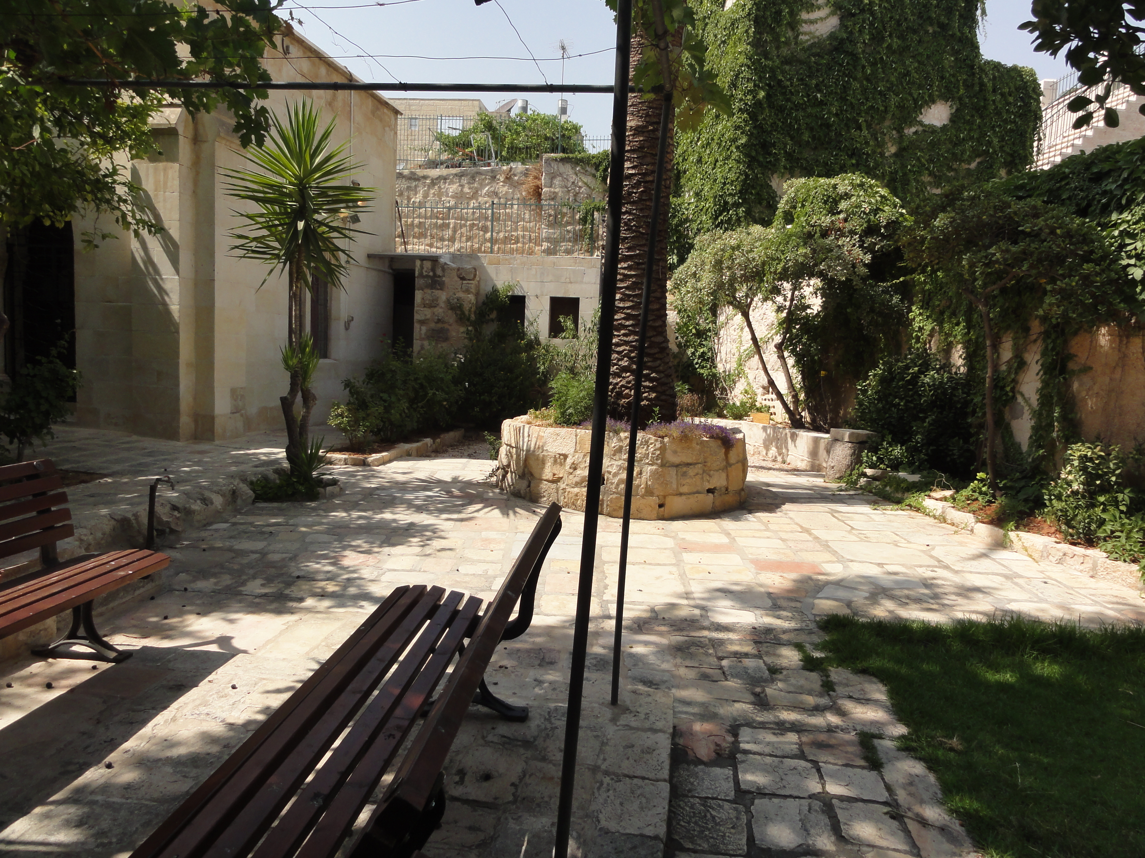 Christ Church courtyard/garden